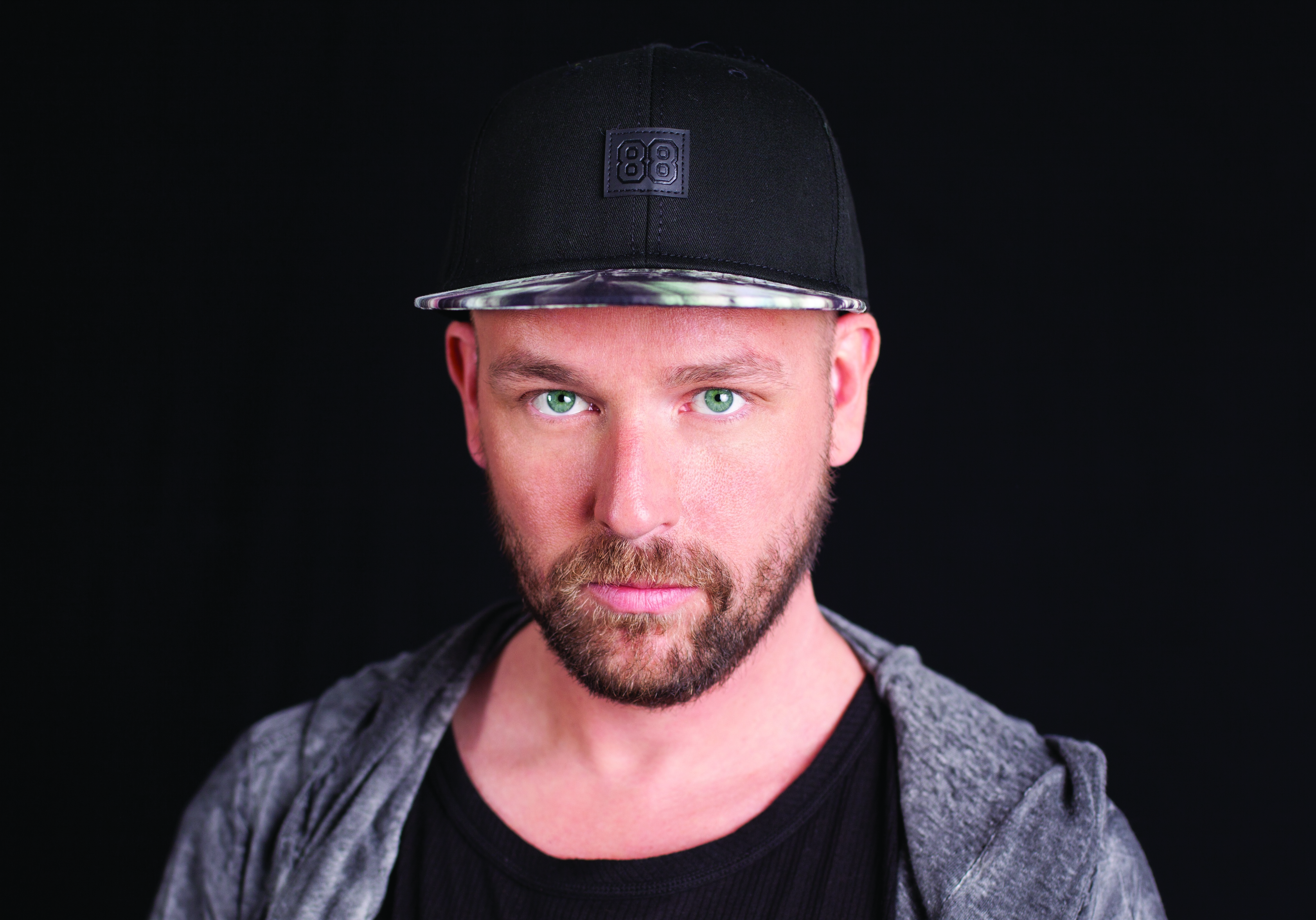 Sander Kleinenberg press photo